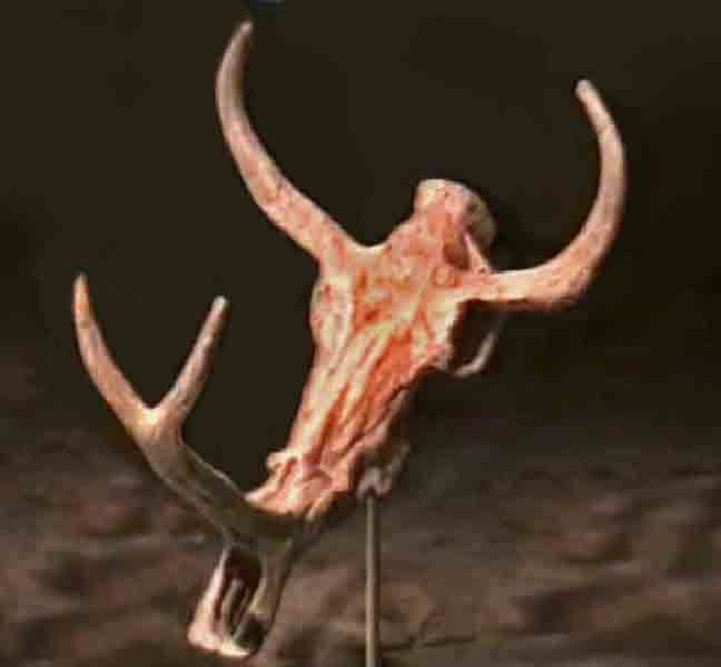 Skull of Synthetoceras tricoronatus at the Denver Museum of Nature and Science